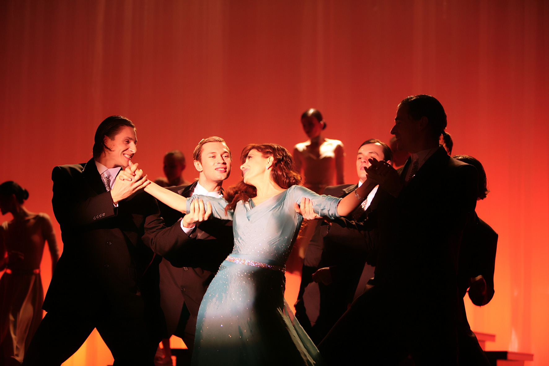 Majida during the shooting of "E'tazalt El Gharam" music video in 2006 under the direction of Nadine Labaky.